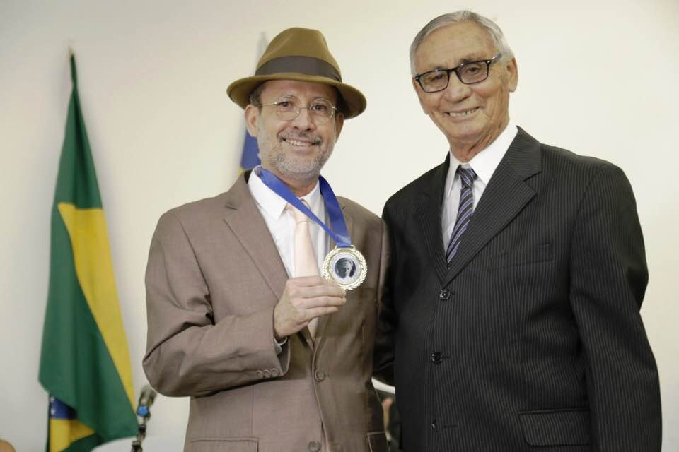 Wilson Seraine ao lado de Gonçalo Ferreira, presidente da ABLC